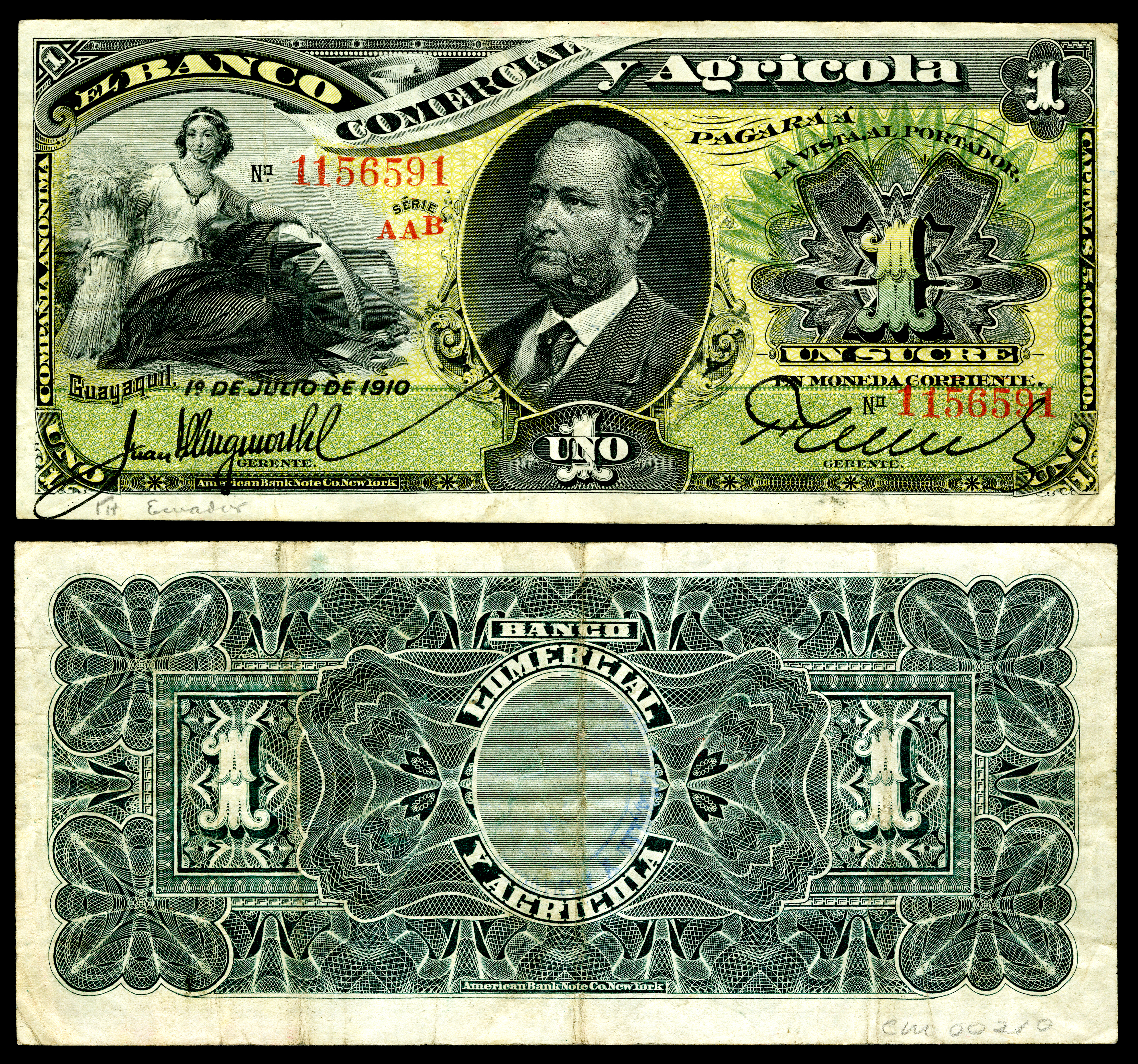 Ecuador, Banco Comercial Y Agricola, 1 sucre (1910). Engraved by the American Bank Note Company.